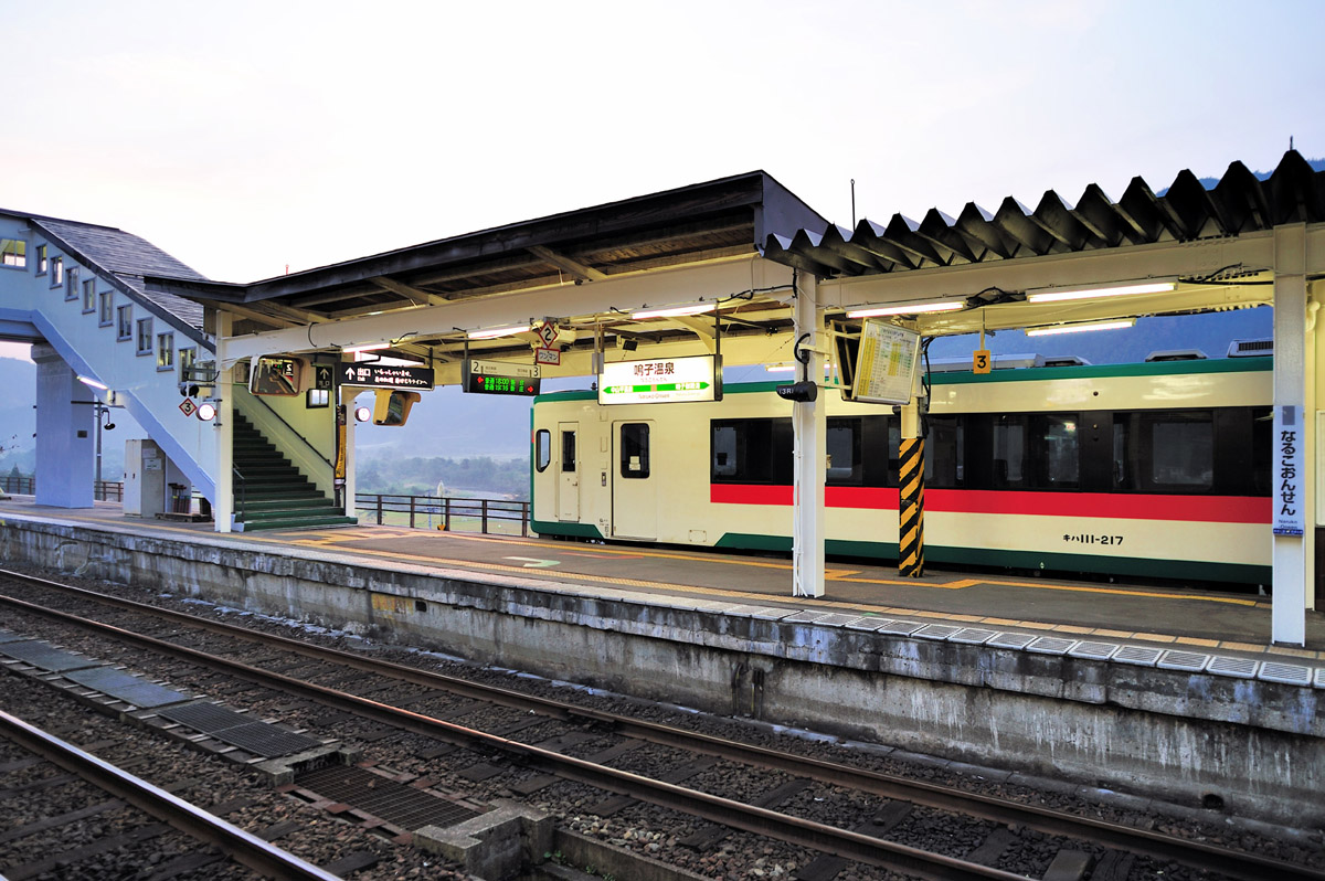 JR East Naruko-Onsen Station